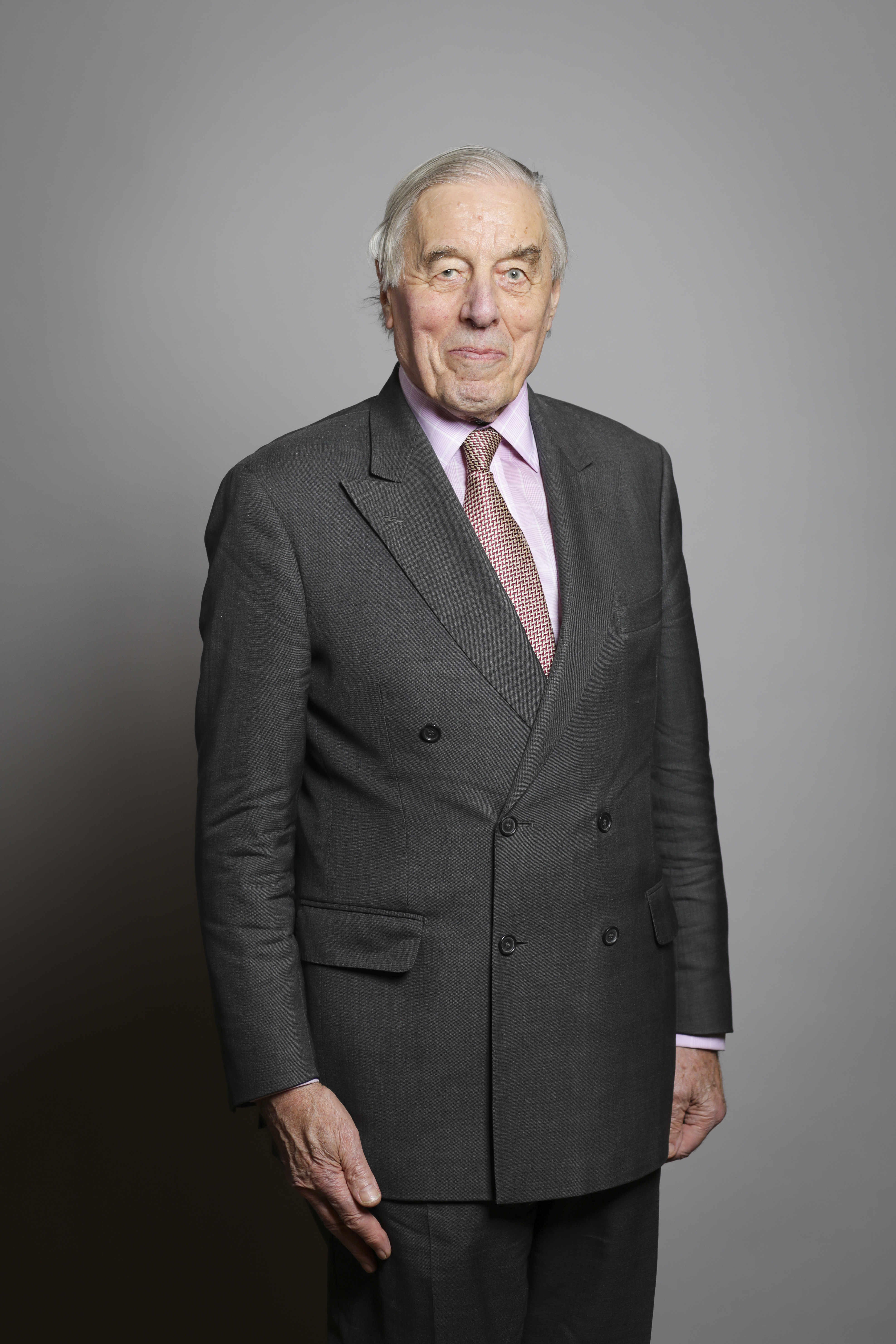 Official portrait of Lord Ramsbotham Full sized portrait of Lord Ramsbotham